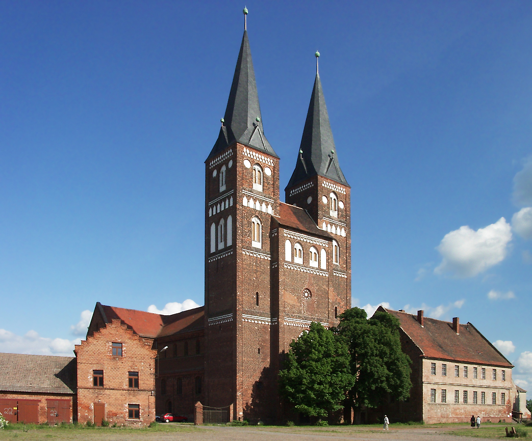 Monastery of Jericho in the german Federal State Sachsen-Anhalt